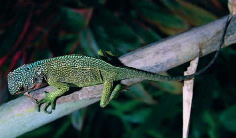 Enyalioides rubrigularis male (QCAZ 8460).